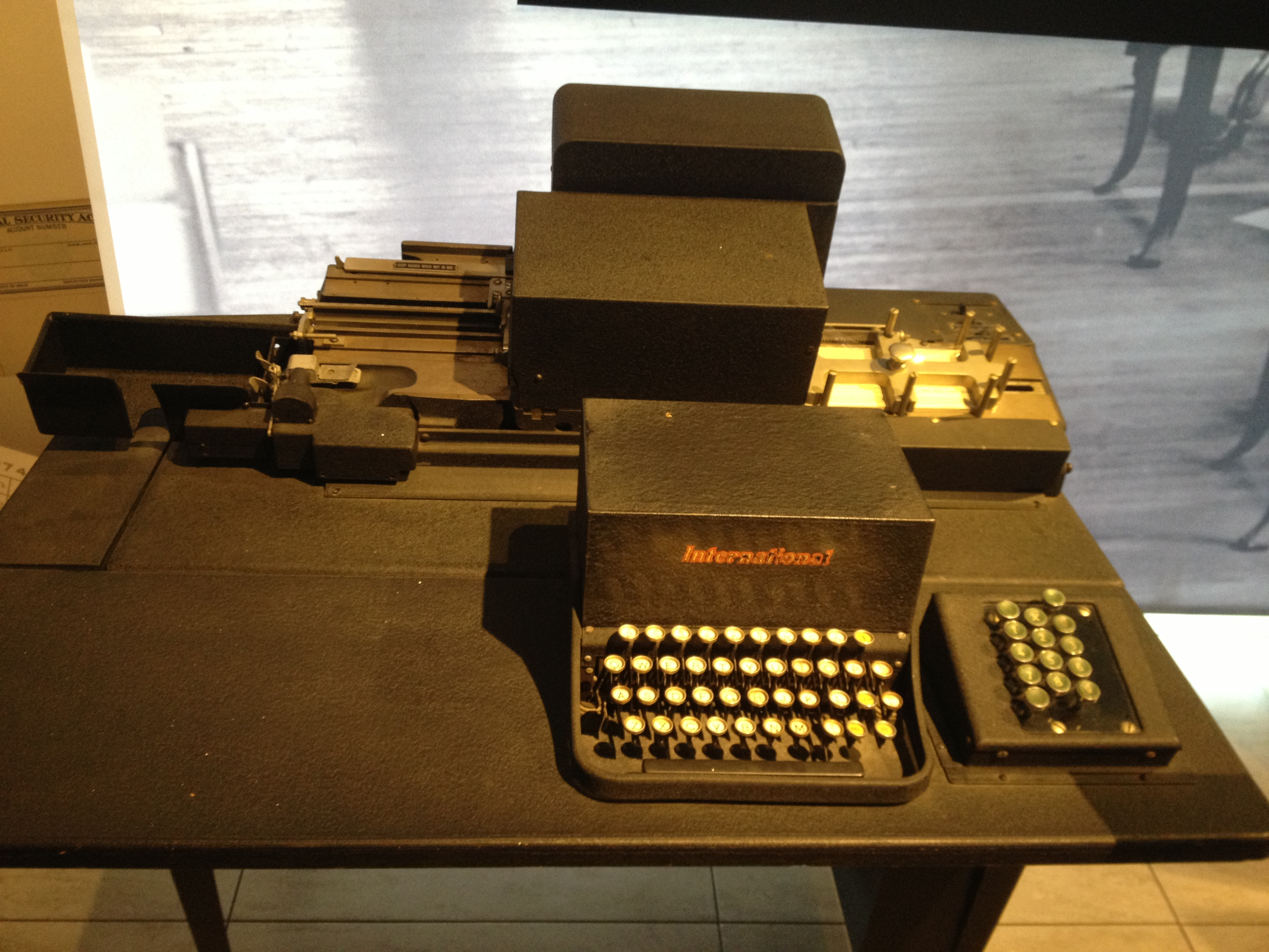 IBM Type 31 Duplicating Punch keypunch machine, 1933, on display at the Computer History Museum